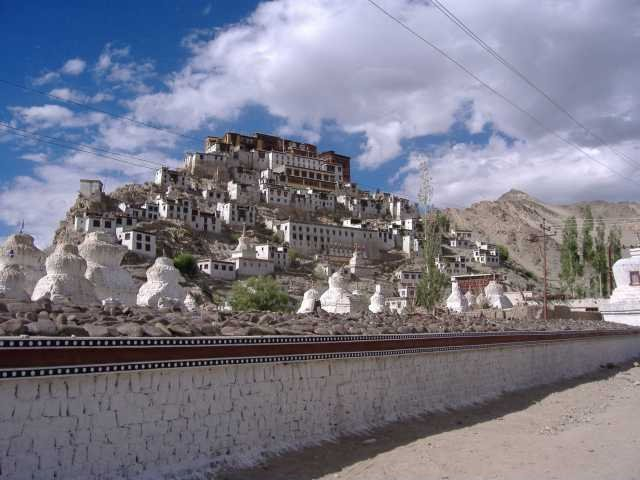 Author / copyright holder Beefy_SAFC (Ian A. Inman) - the photo has been uploaded by the photograph's copyright holder and taker. The photo was taken in Summer 2005 an is intended for use in the 'gompa' stub as an example of a gompa.